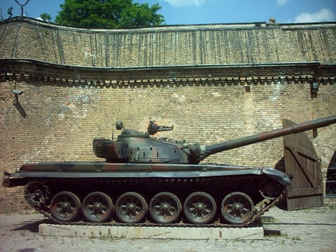 T-72M tank at the Museum of Armament in Poznań